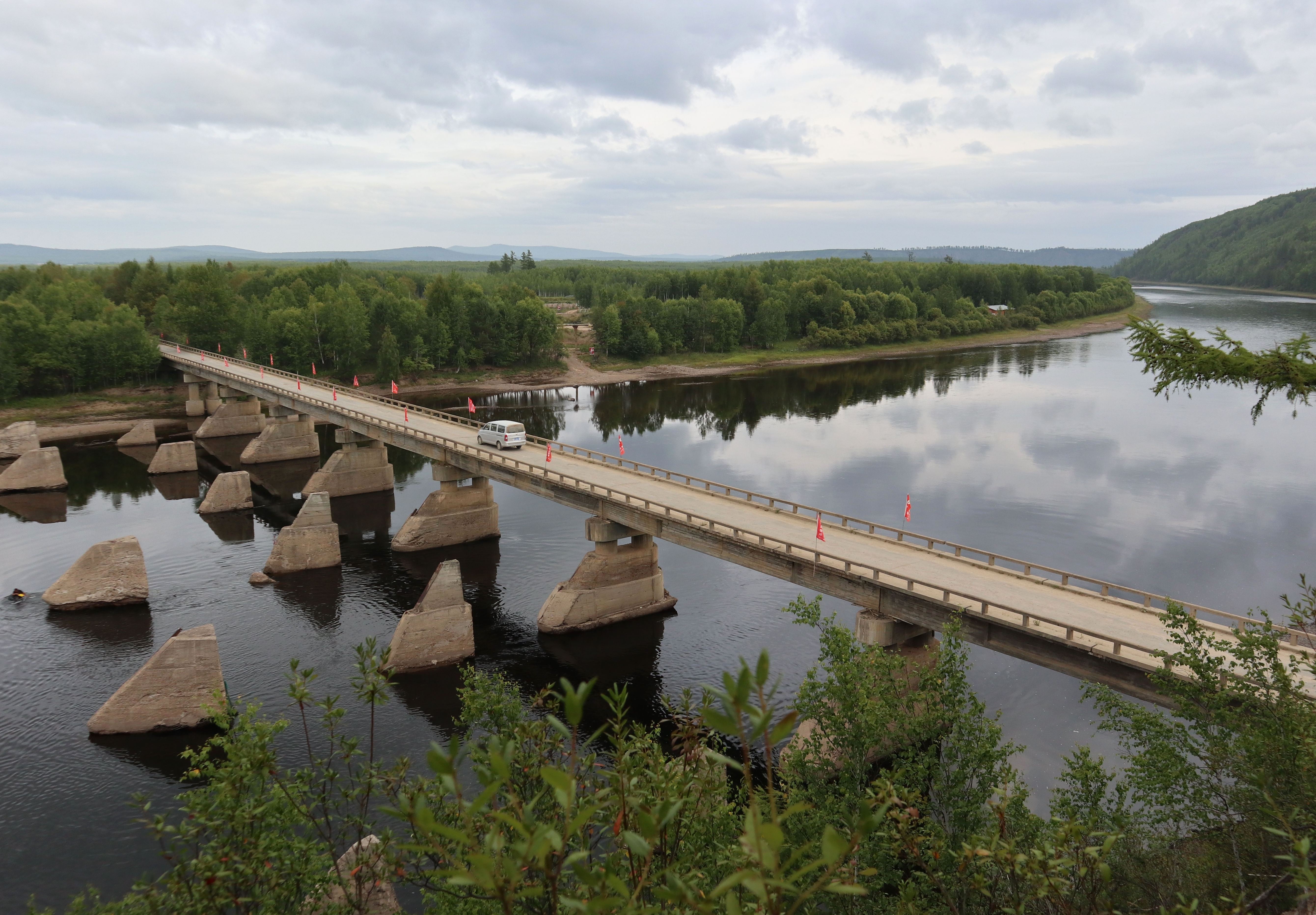 Bridge on Emur River, Mohe, Heilongjiang Province.